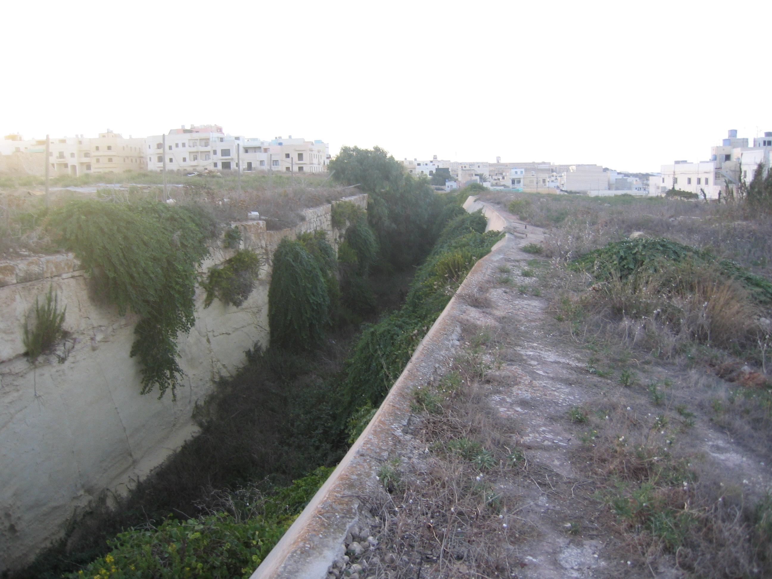 Della Grazie Battery. Xlendi, Malta. Forward ditch of the battery